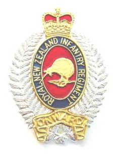 RNZIRCapBadge.jpg